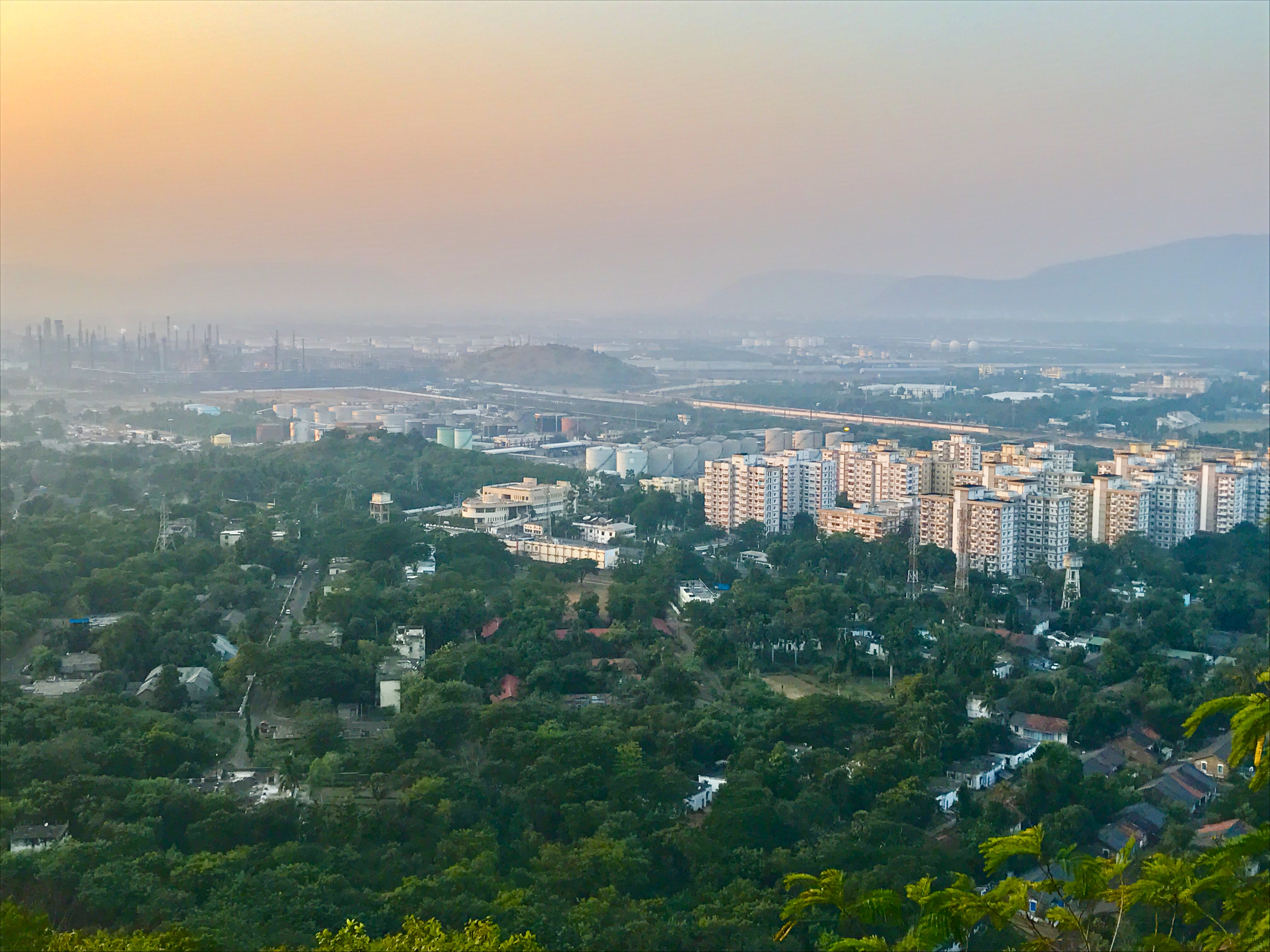 HPCL complex on the left corner and Navy quarters in Visakhapatnam city